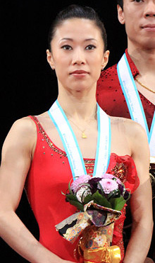 Shen Xue and Zhao Hongbo at the 2009-2010 Grand Prix of Figure Skating Final.